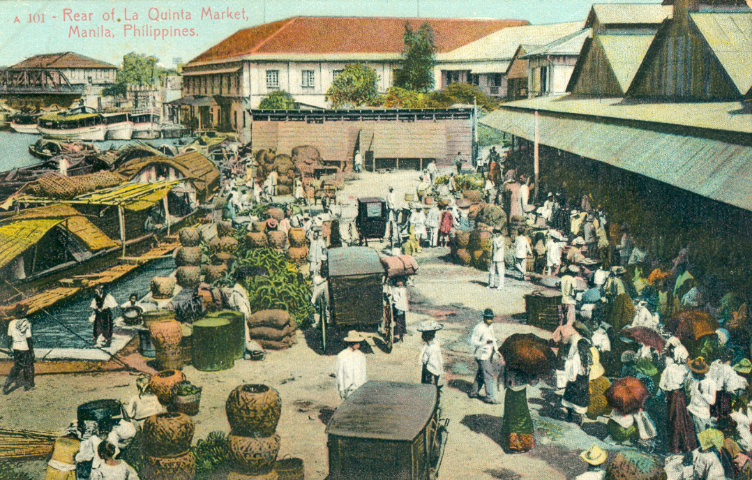 View of Quinta Market from the Puente Colgante, taken in 1911. Tagalog: Tanawin ng Pamilihang Bayan ng Quinta mula sa Puente Colgante (Tulay na Nakabitin), na kinuha none 1911.